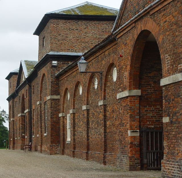 The Stables - Burton Constable Hall, Burton Constable, East Riding of Yorkshire, England